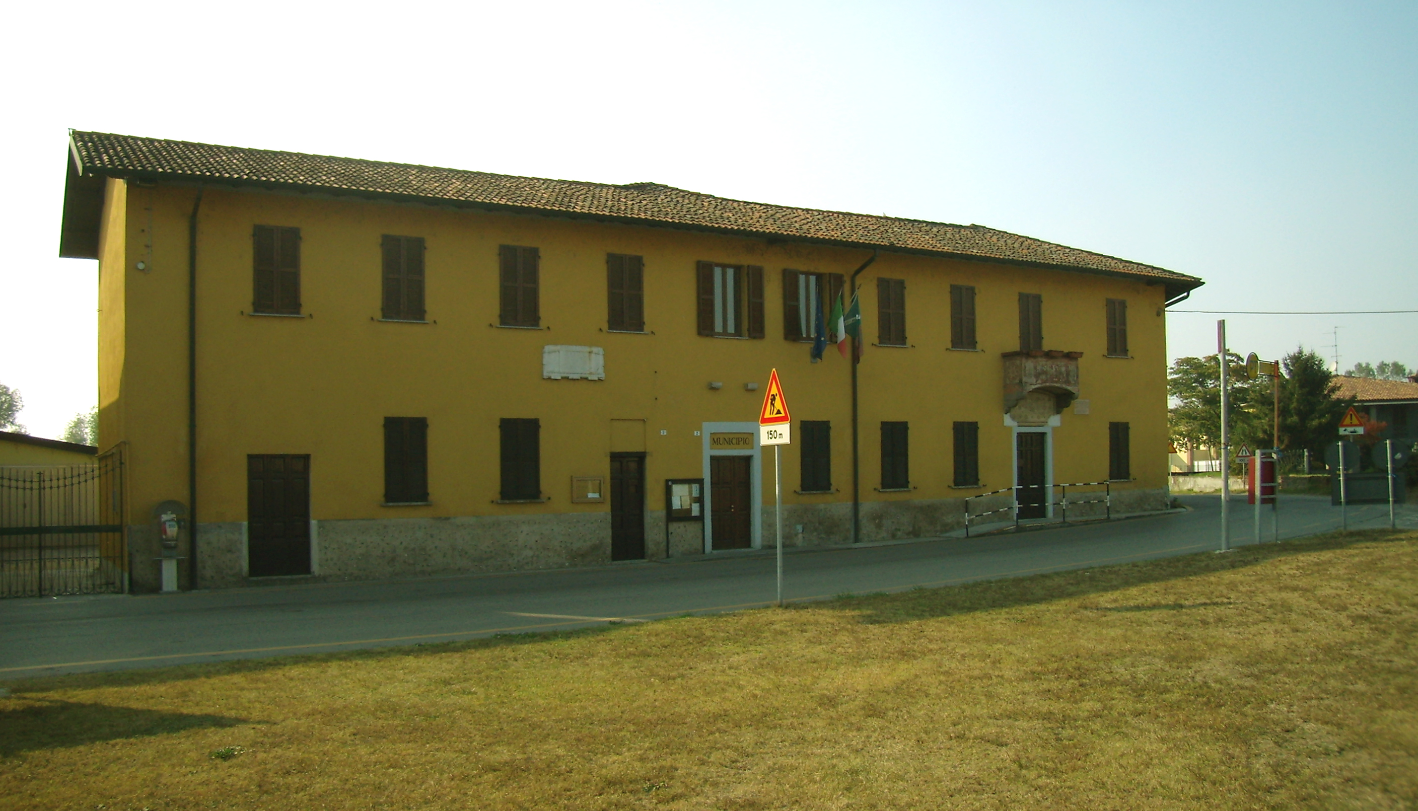 Town hall in Corte Palasio, Italy.